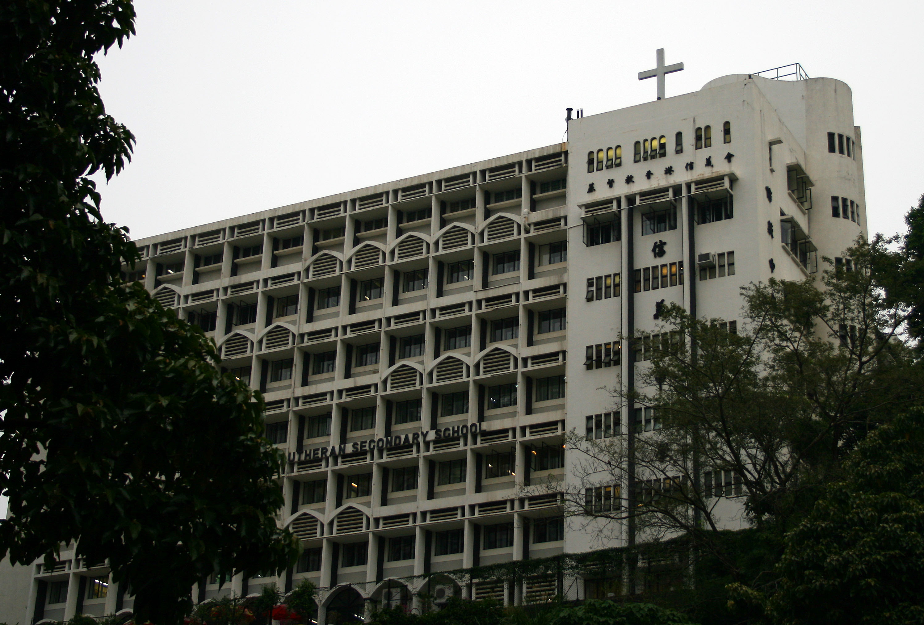 ELCHK Lutheran Secondary School